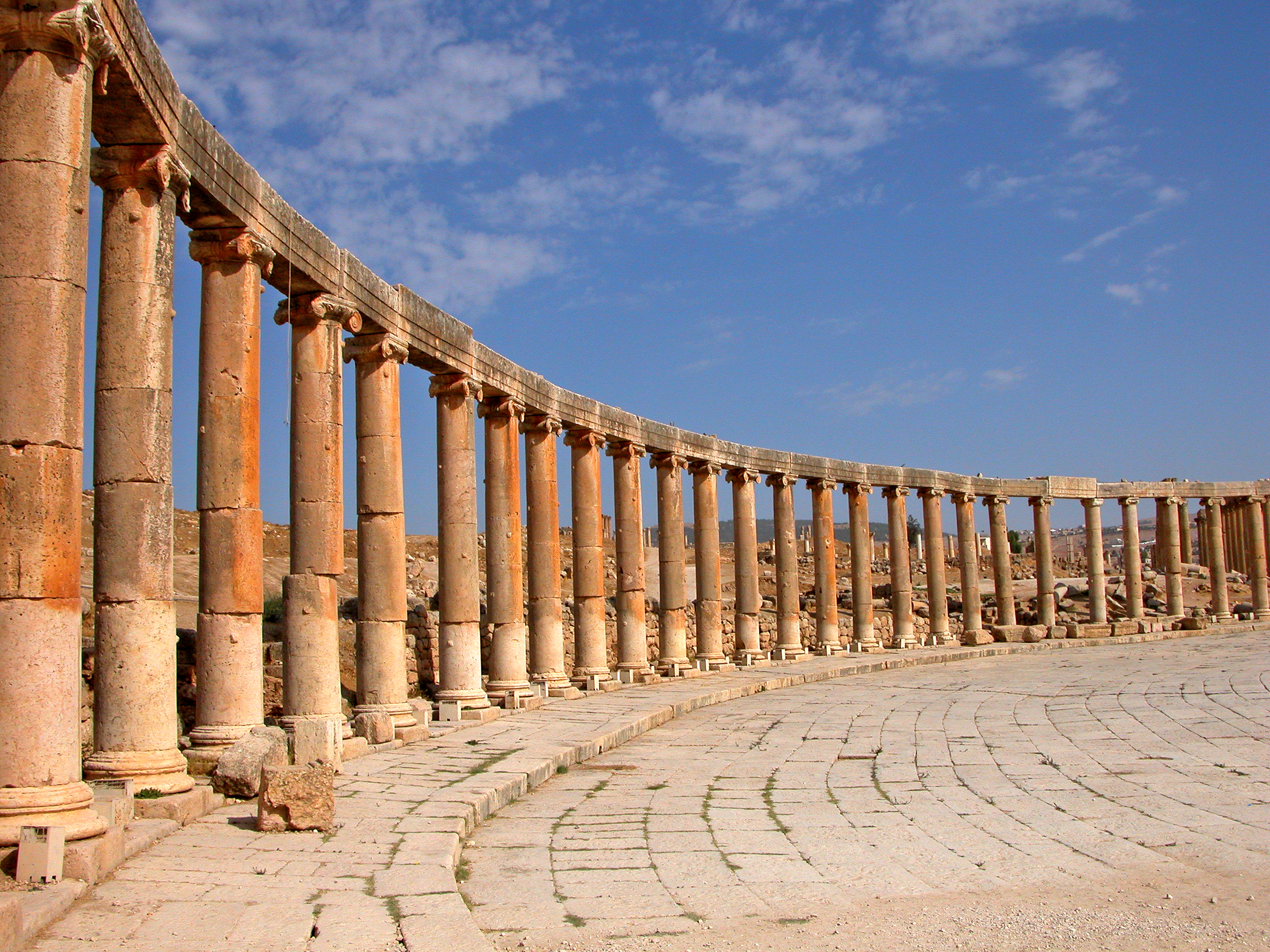 The Oval Plaza (Forum) measures 90 x 80 m and is surrounded by a broad sidewalk and a colonnade of 1st Century Ionic columns. There are two alters in the middle and a fountain was added in the 7th Century AD. Jerash, Jordan Digital Eloquence - Image of the day - 28 June, 2008